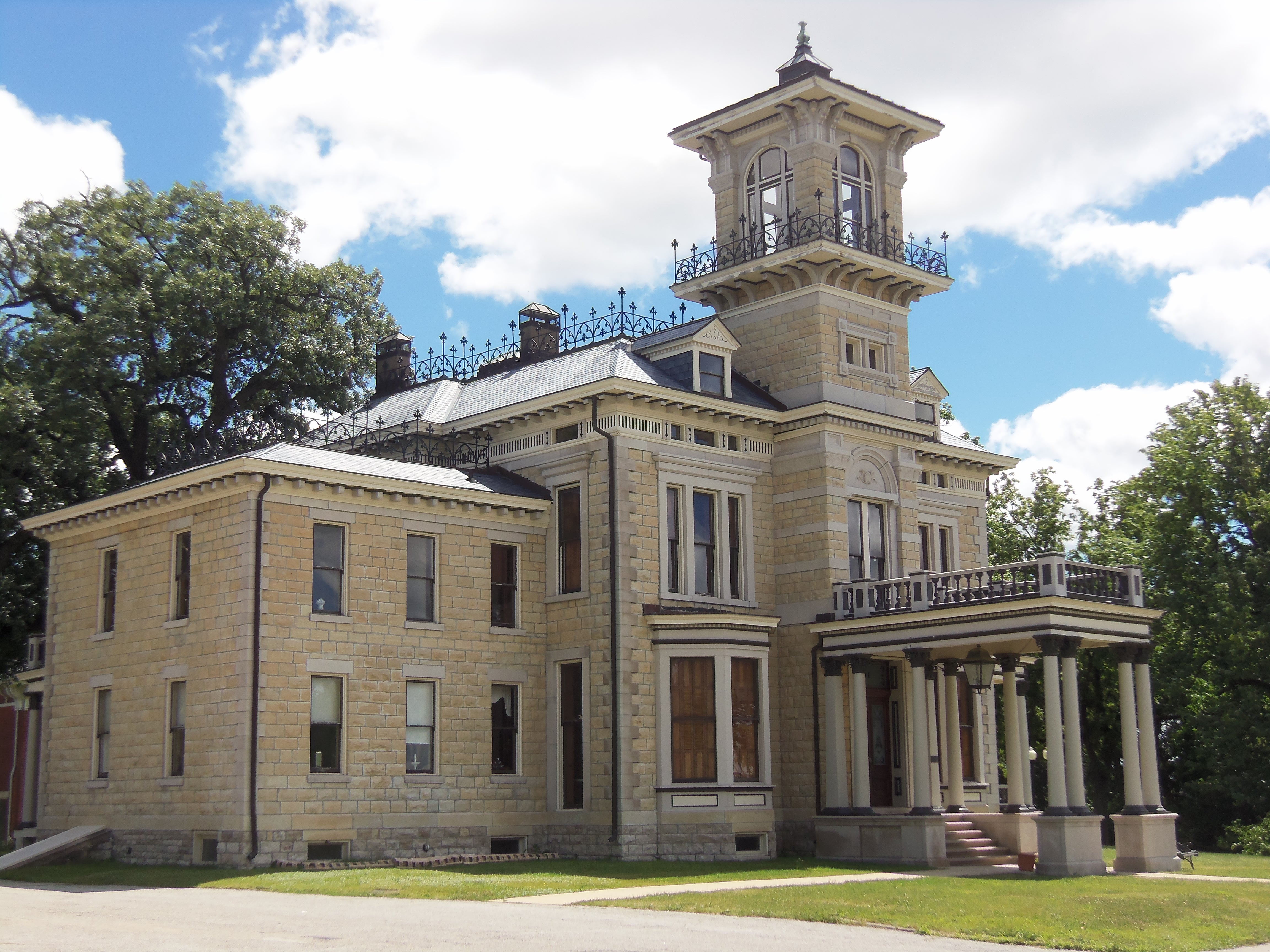 The Renwick Mansion is part of the St. Katherine’s Historic District in Davenport, Iowa.